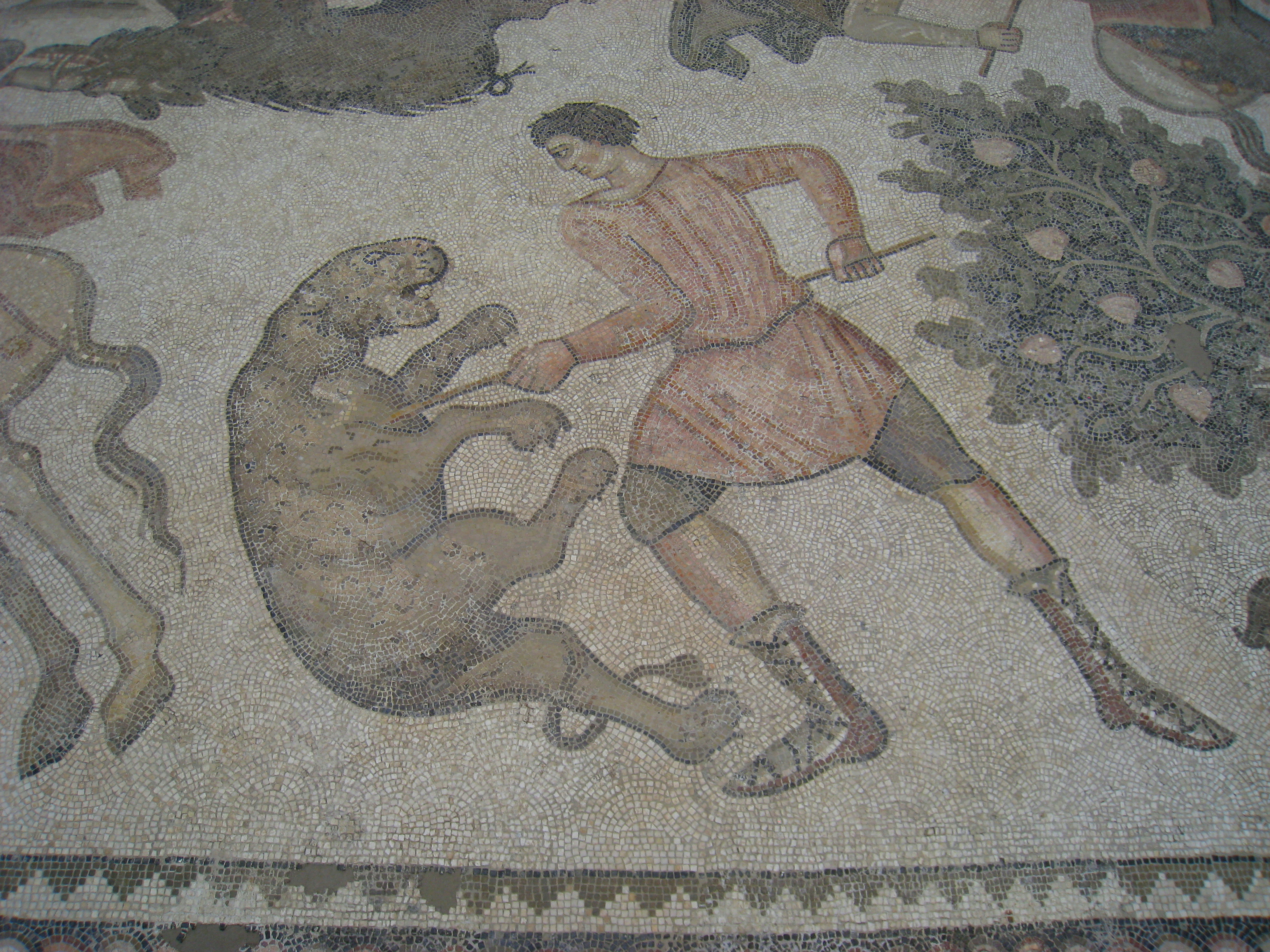 Antioch mosaics in the Worcester Art Museum, Worcester, Massachusetts, USA. The museum permits photography and does not restrict usage of the photographs.